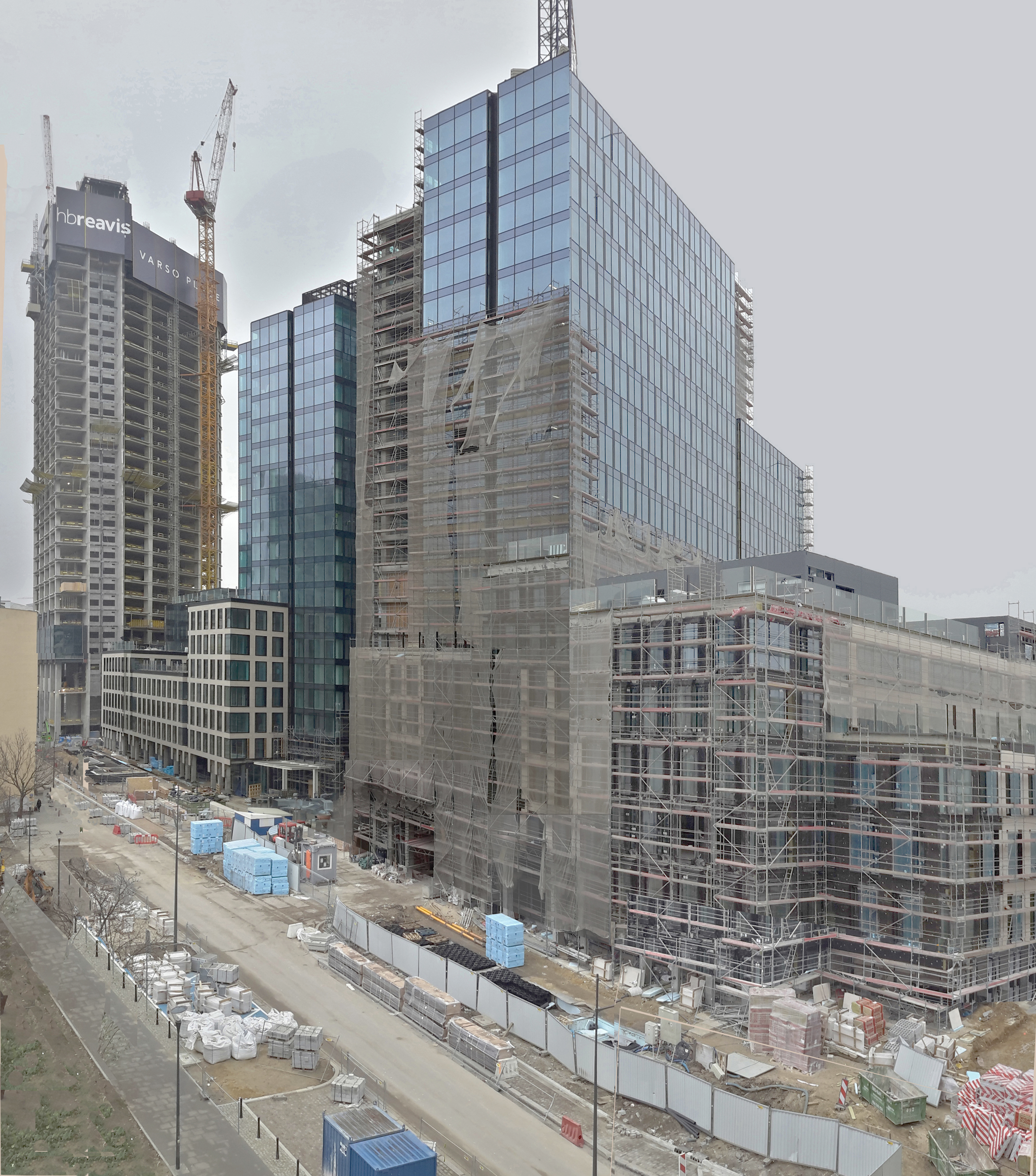 Plac budowwy Varso 1 grudnia 2019